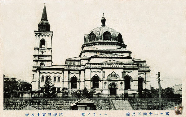 Taken at completion of construction of the Holy Resurrection Cathedral Tokyo in 1891. Also known as St. Nicholas Cathedral. An Eastern Orthodox Church